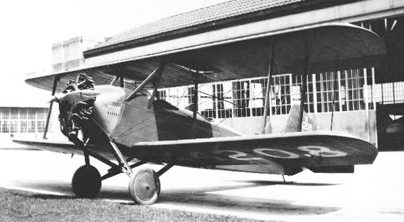 Catalog #: 00071204 Manufacturer: Spartan Designation: C-3